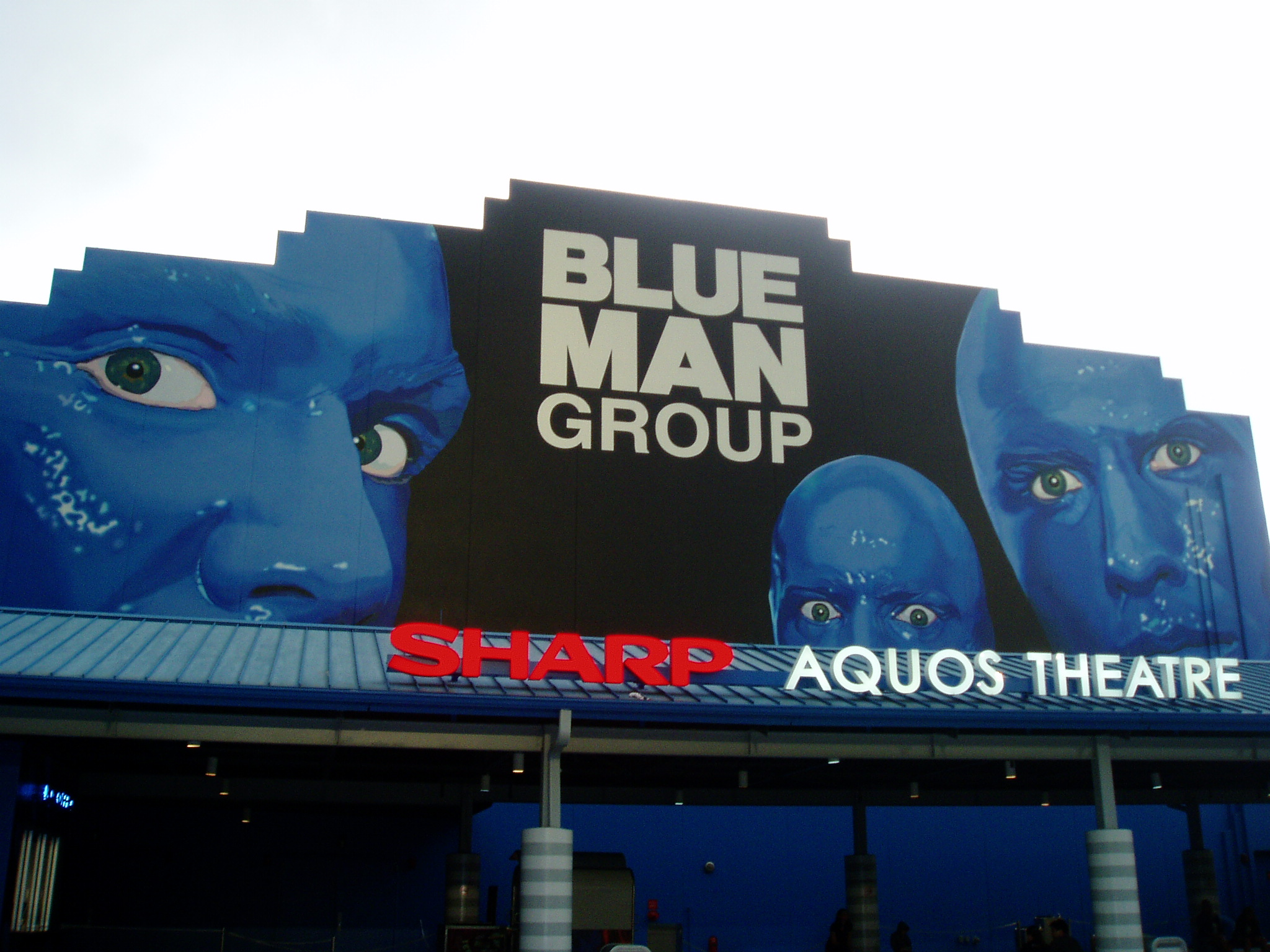 I, mtjaws, took this picture of the Blue Man Group Sharp Aquos Theatre building at Universal Orlando on October 9, 2008 with an Olympus Stylus 300 Digital camera.